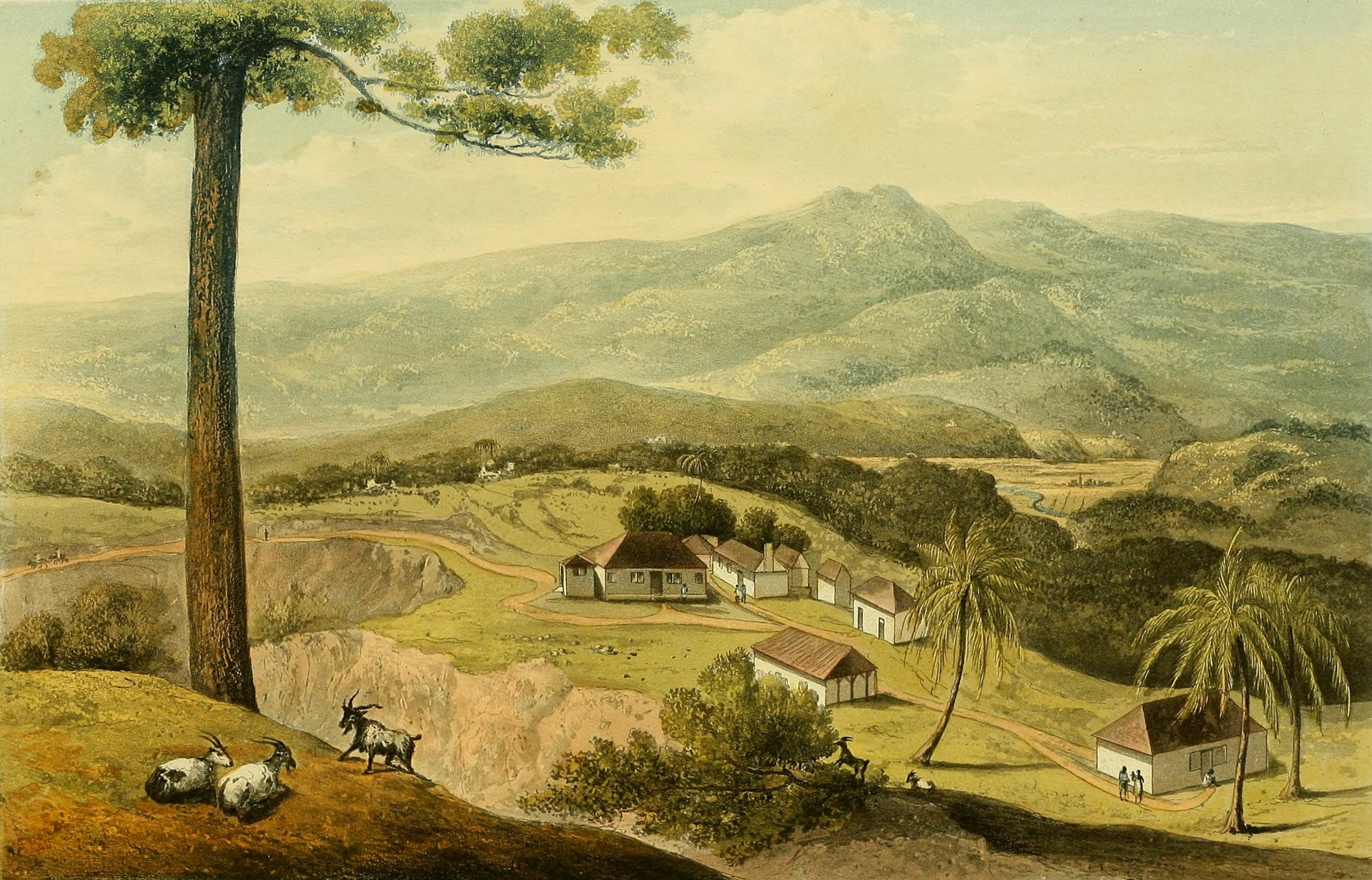 Golden Vale, Portland. (Jamaica)